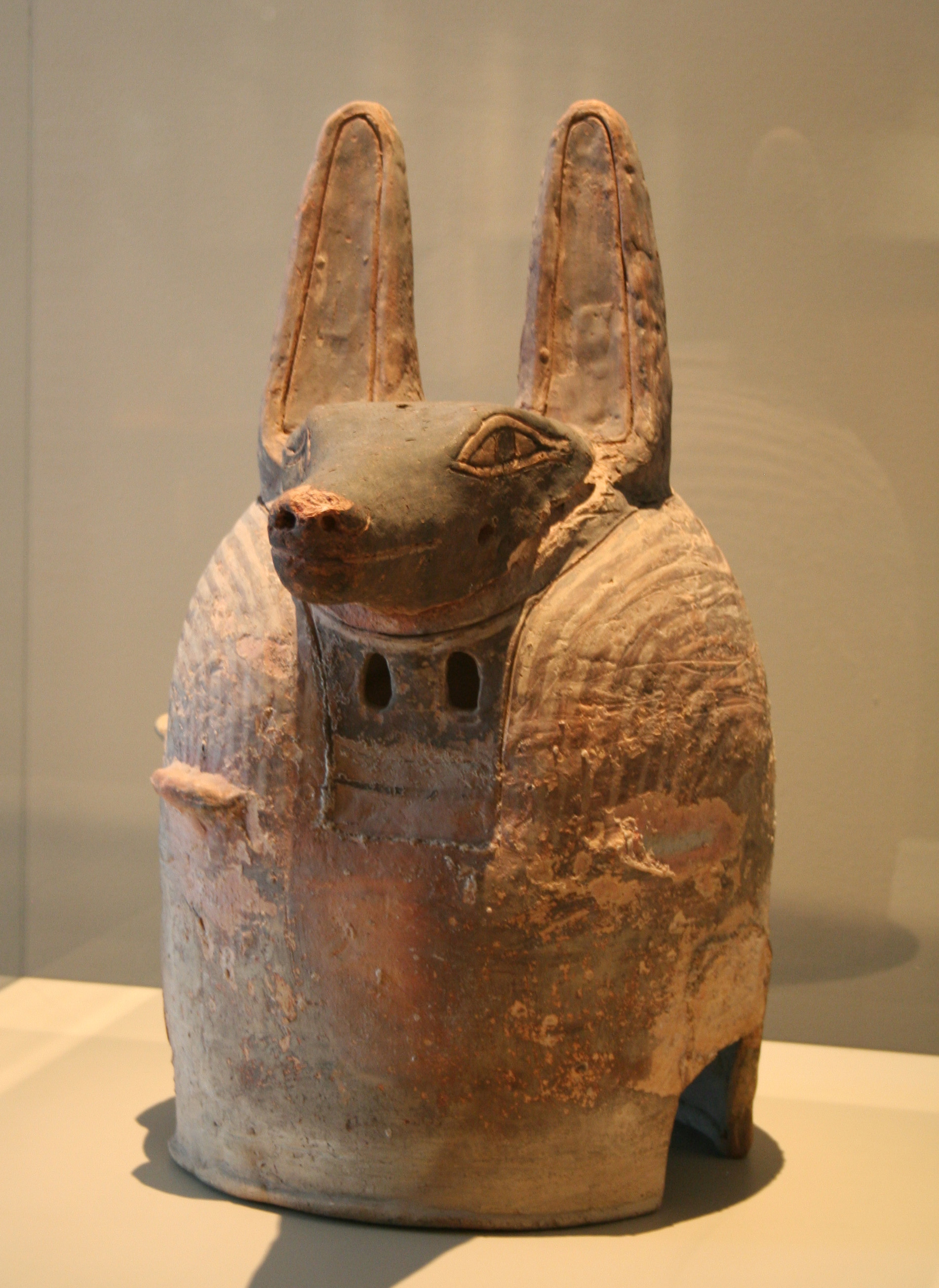 Anubis mask. Late period. Clay. H 49 cm. IN 1585. Roemer-Pelizaeus Museum, Hildesheim